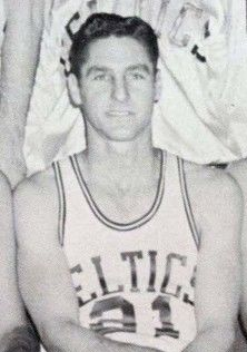 The 1956-57 Boston Celtics that won the first championship for the franchise.